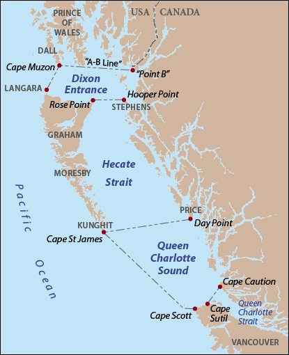 This is a map showing the location and delineation of Queen Charlotte Sound, Hecate Strait, and Dixon Entrance, with the addition of the Canada-US border. I, Pfly, made it with ArcGIS, Adobe Illustrator, and Adobe Photoshop.